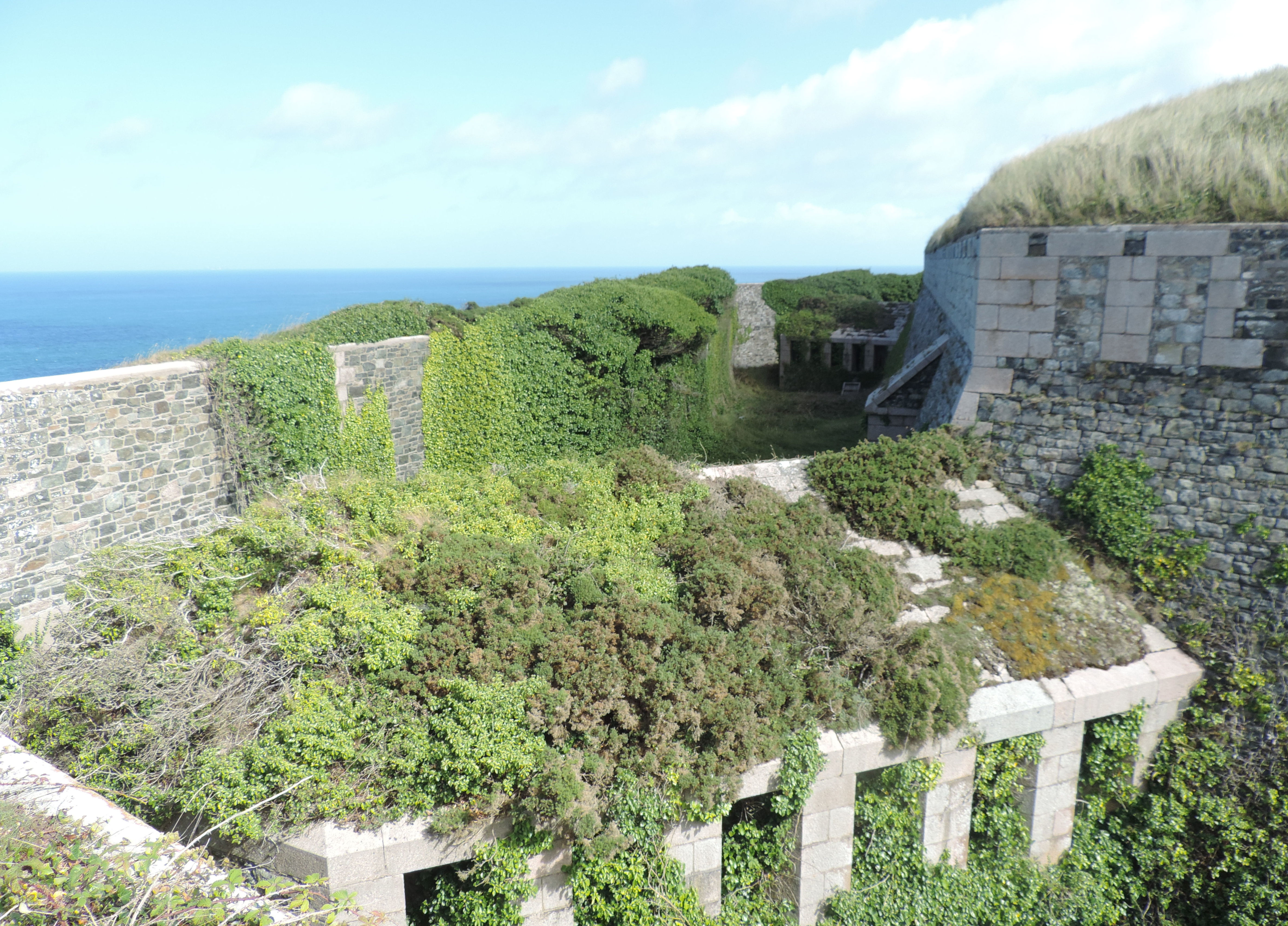 Overgrown walls at the ruins of Fort Albert, Alderney, Channel Islands.